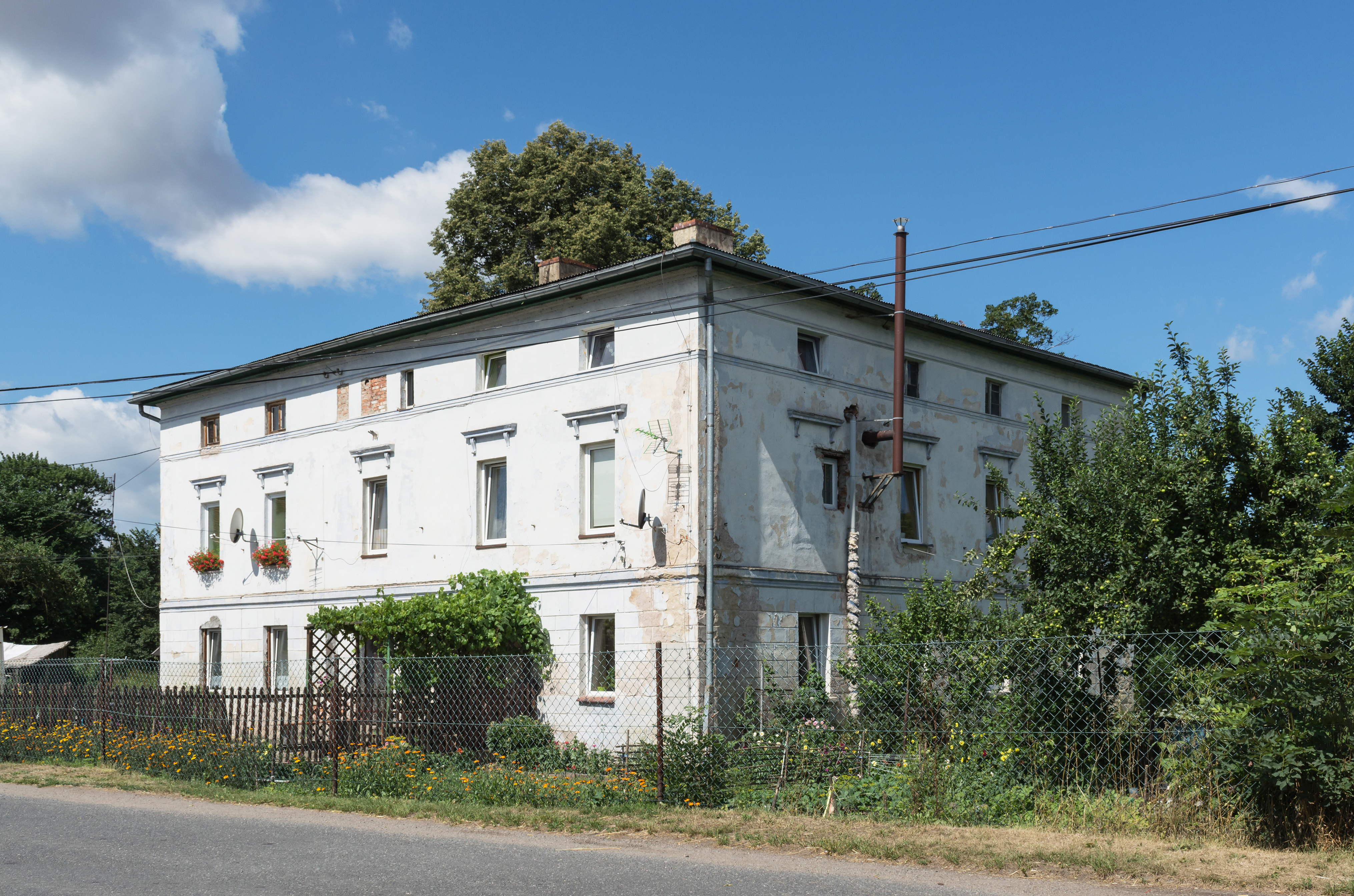 Manor in Piszkowice